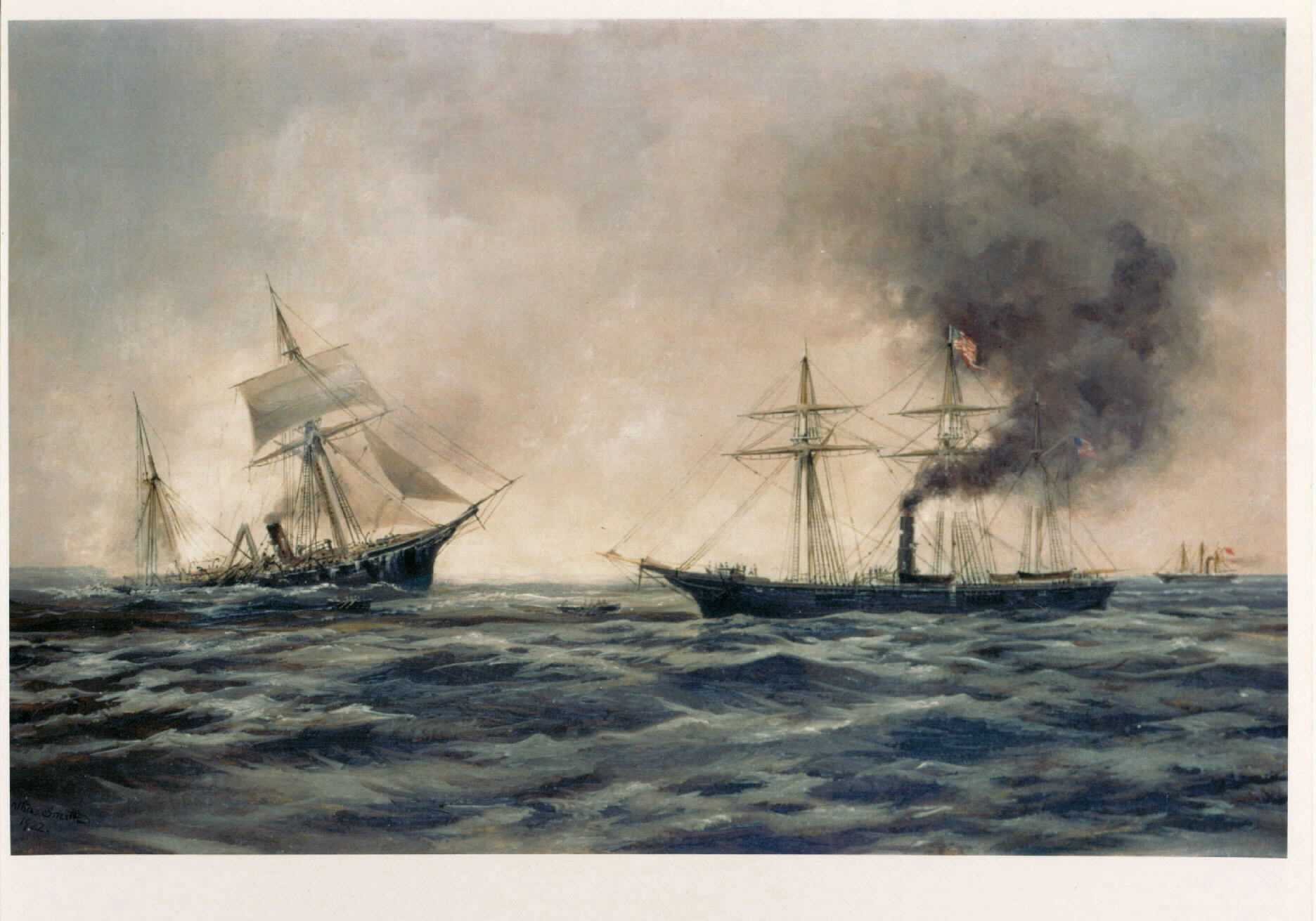 Washington Navy Yard (Feb. 4, 2003) -- This piece of art was painted by the 20th Century artist Xanthus Smith. This 1922 artwork depicts the sinking of the Confederate ship CSS Alabama after her fight with the USS Kearsarge (seen right). Alabama was the scourge of the American merchant fleet during a two-year commerce destroying campaign before being sunk during a battle with the Kearsarge in June 1864. American archaeologists and French Navy divers recently recovered a bell from the famous Confederate commerce raider from it’s resting place 180 feet below the surface of the English Channel off the coast of Cherbourg, France. Courtesy of the Franklin D. Roosevelt Library, Hyde Park, N.Y. U.S. Navy photo. (RELEASED)